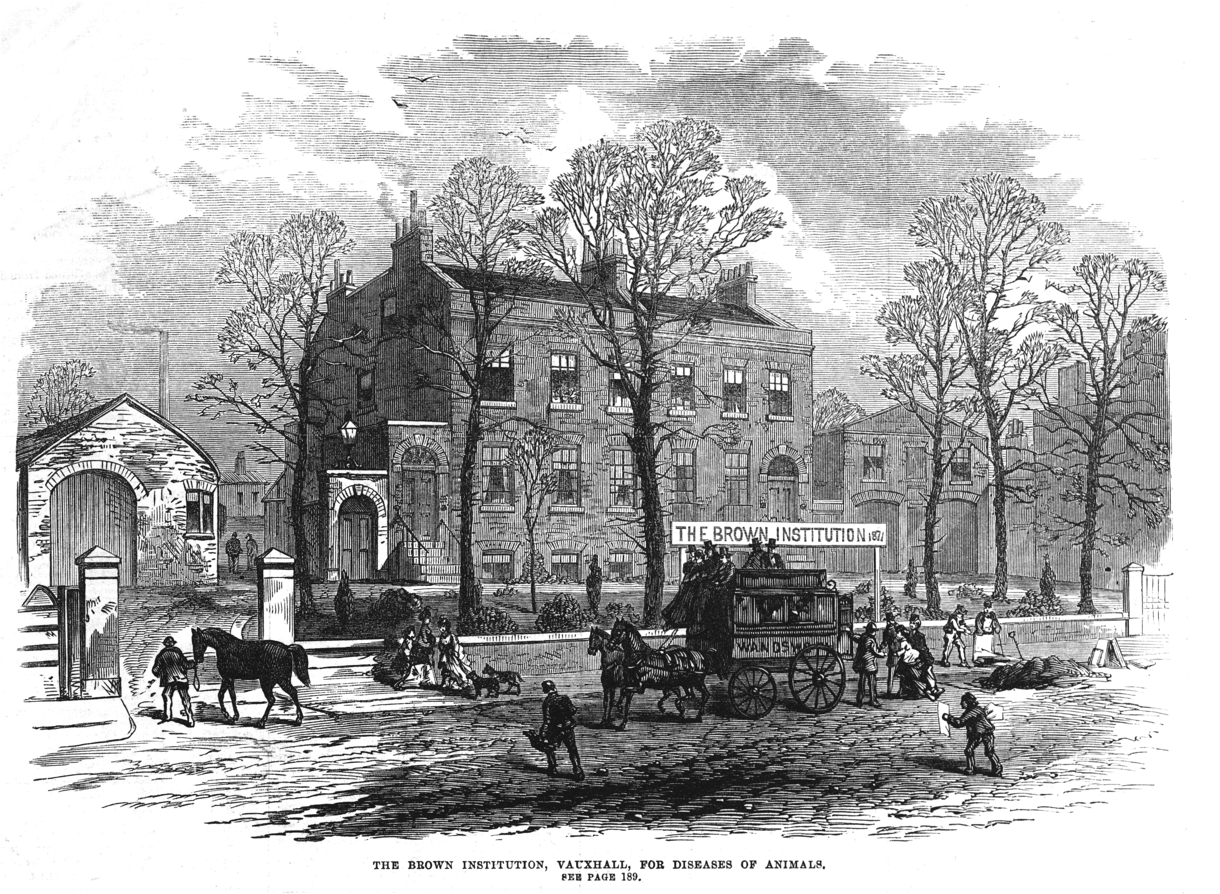 The Brown Institution, Vauxhall, for diseases of animals